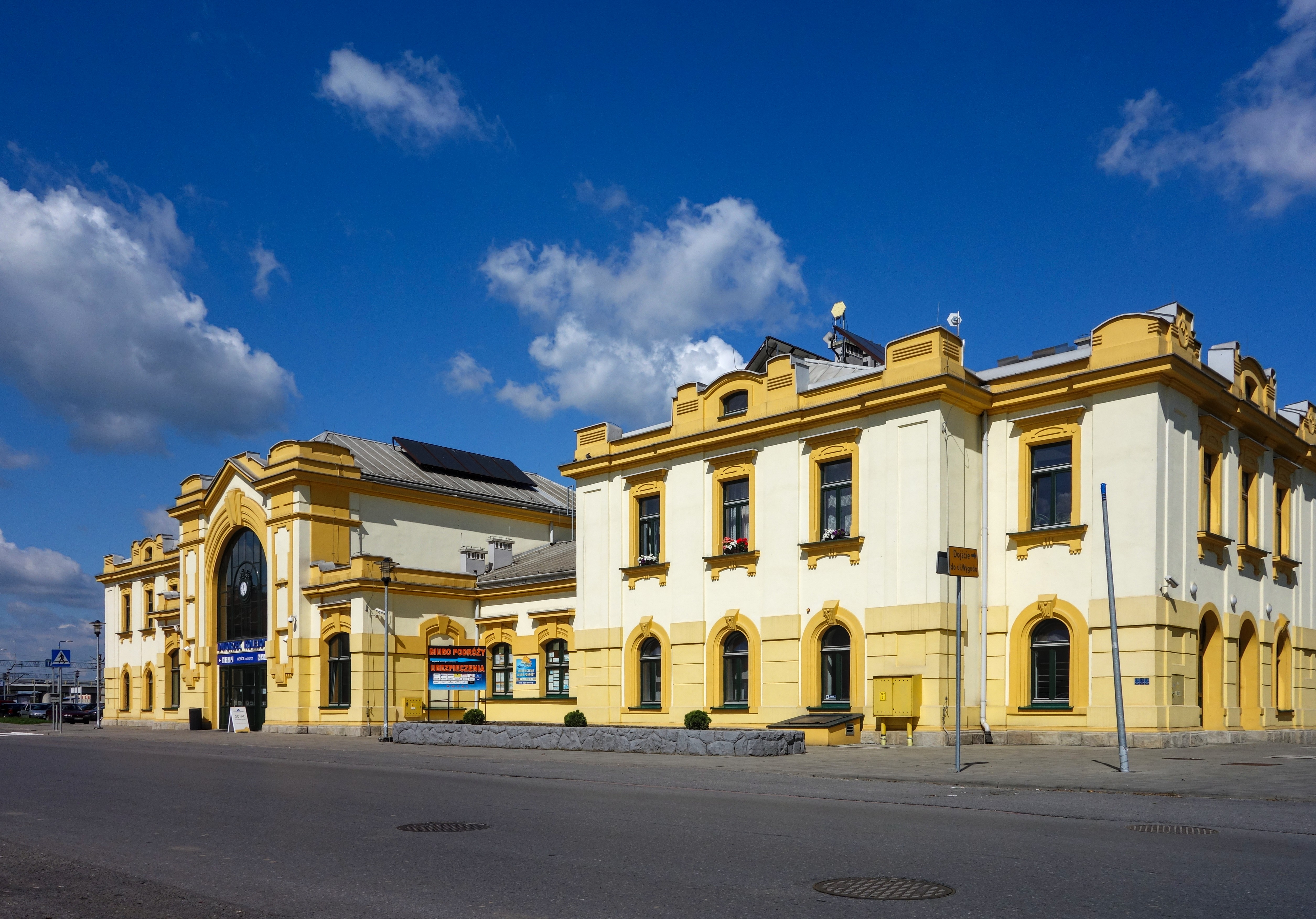 Bochnia - dworzec kolejowy This photo was taken during Railway Wikiexpedition 2014 set up by Wikimedia Polska Association. You can see all photographs in category Wikiekspedycja kolejowa 2014. English | Polski | +/−